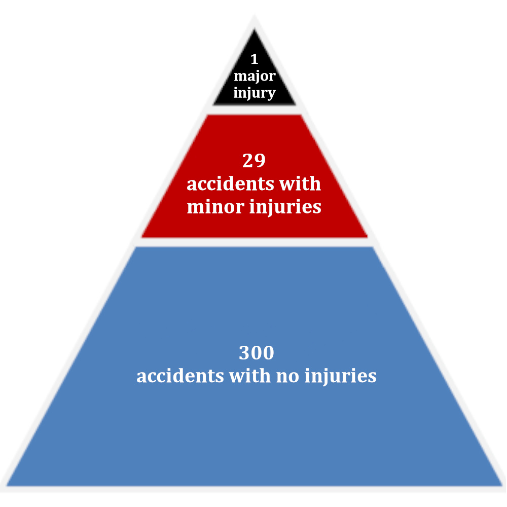 This presents the ratio between the number of accidents causing major injuries, minor injuries, and no injuries in an industrial setting